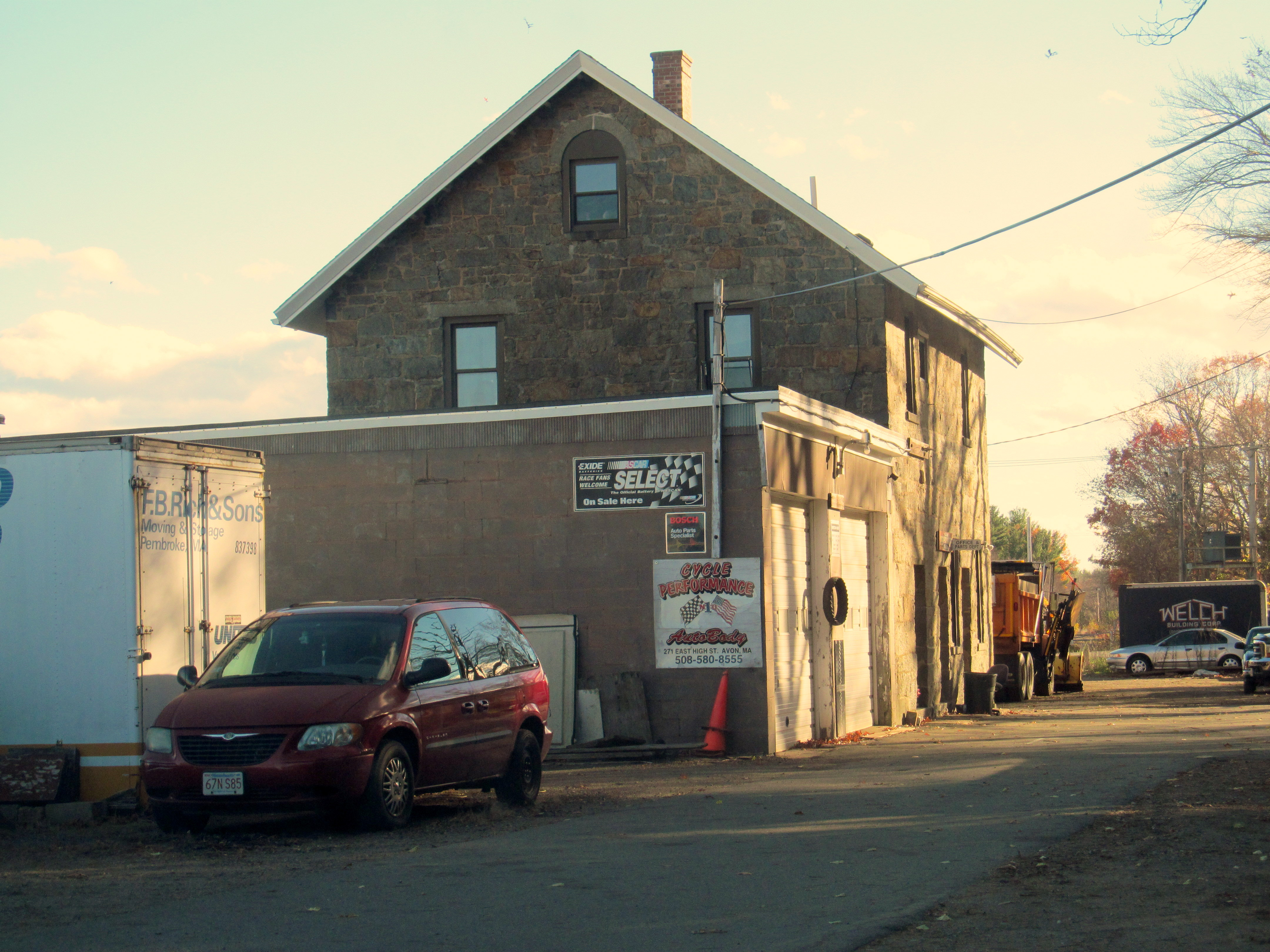 The former Avon station in November 2016